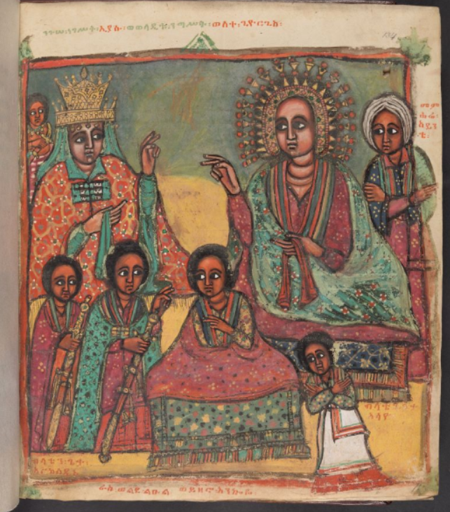 18th century, An Ethiopian manuscript containing:The Acts of St. George. f. 1r. ገድለ ጊዮርጊስ , the Acts of St George.f. 5r. The discourse of Theodotus of Ancyra.f. 12r. The history and martyrdom of St. George.f. 73r. The 41 miracles of St. George.This Ms. was written for one Za-Mlka'el, but for his name and those of his wife and mother, the names of King 'lyasii (II., A.D. 1730-55) and his mother Walatta Giyorgis have usually been substituted.Decoration: f. 134r. portraits of 'lyasu and Walatta Giyorgis.